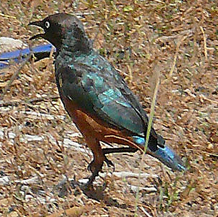 Chestnut-bellied starling (Lamprotornis pulcher) photographed near Dagana, Senegal